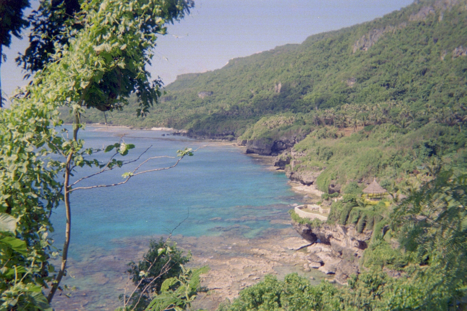 Coast of Rota Island.